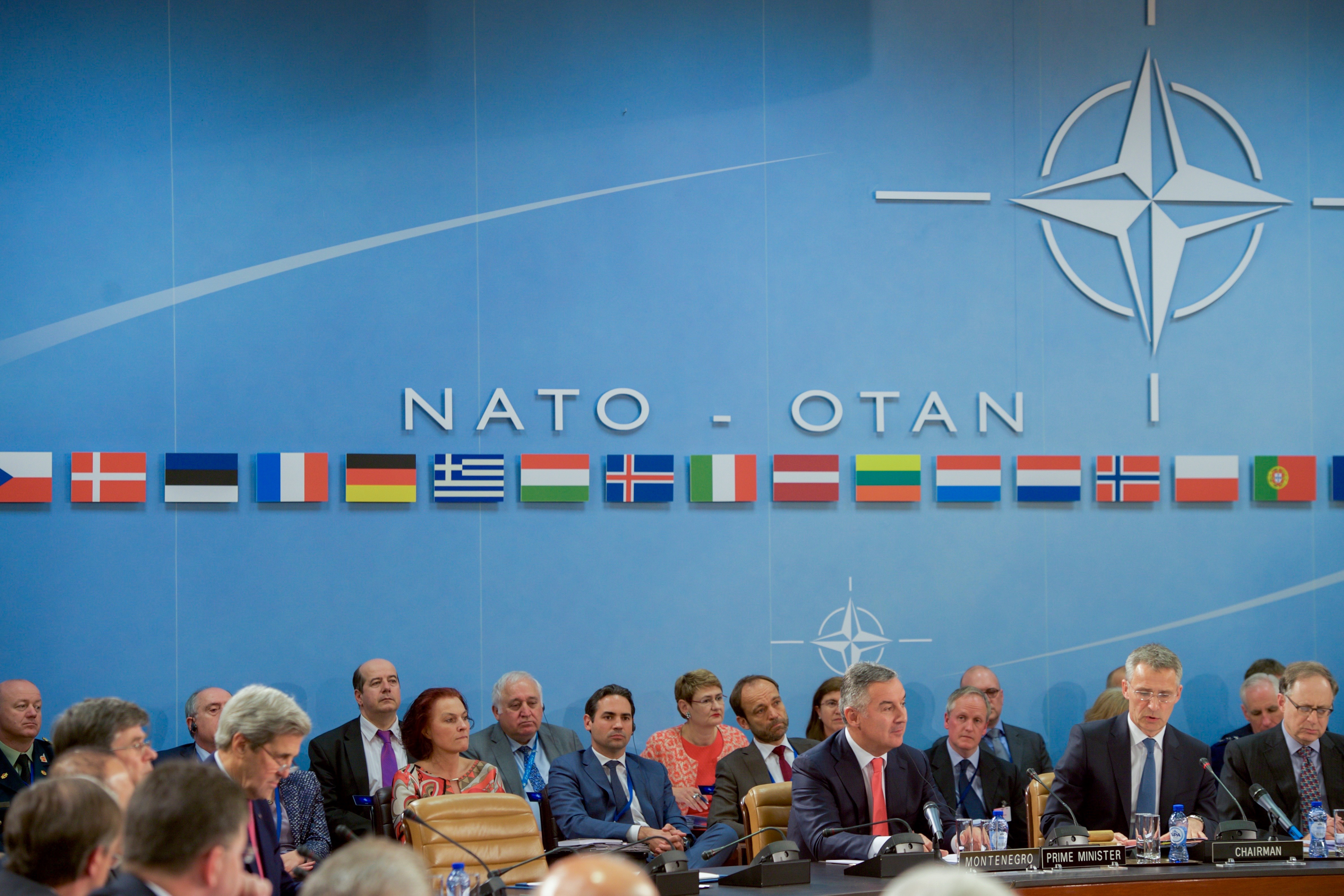 U.S. Secretary of State John Kerry listens to NATO Secretary-General Jens Stoltenberg speak before members of the North Atlantic Treaty Organization signed an Accession Protocol to continue Montenegro's admission to the alliance amid its biannual Foreign Ministerial Meetings on May 19, 2016, at NATO Headquarters in Brussels, Belgium. [State Department photo/ Public Domain]